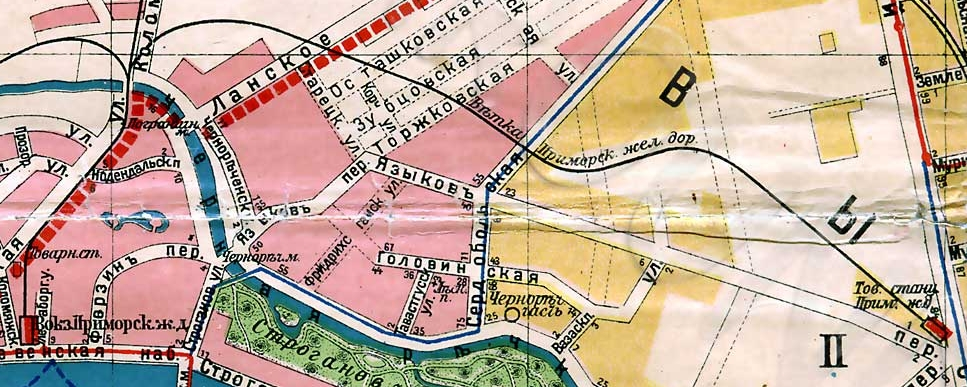 Map of Petrograd, 1916